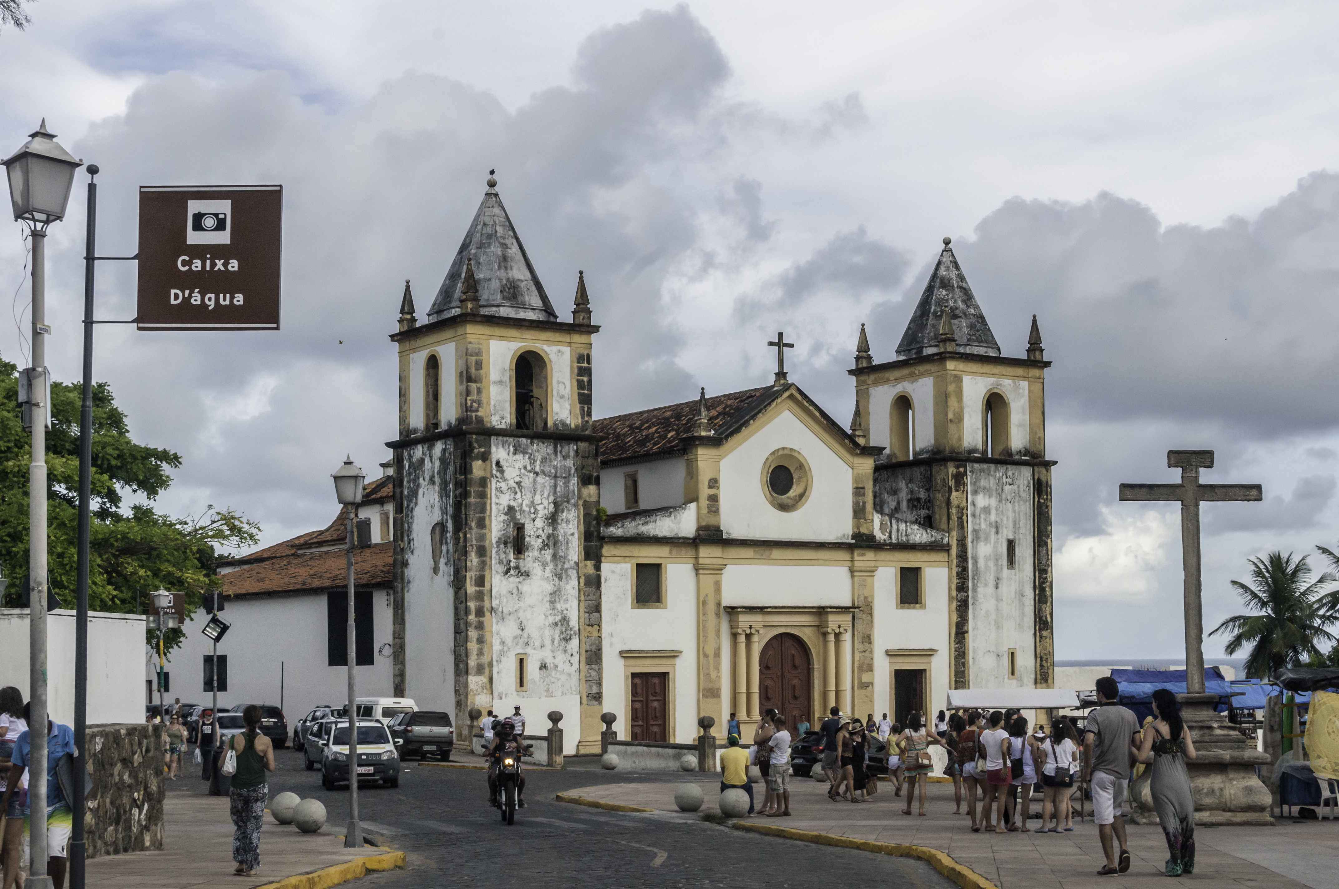 Colonial Church in Olinda